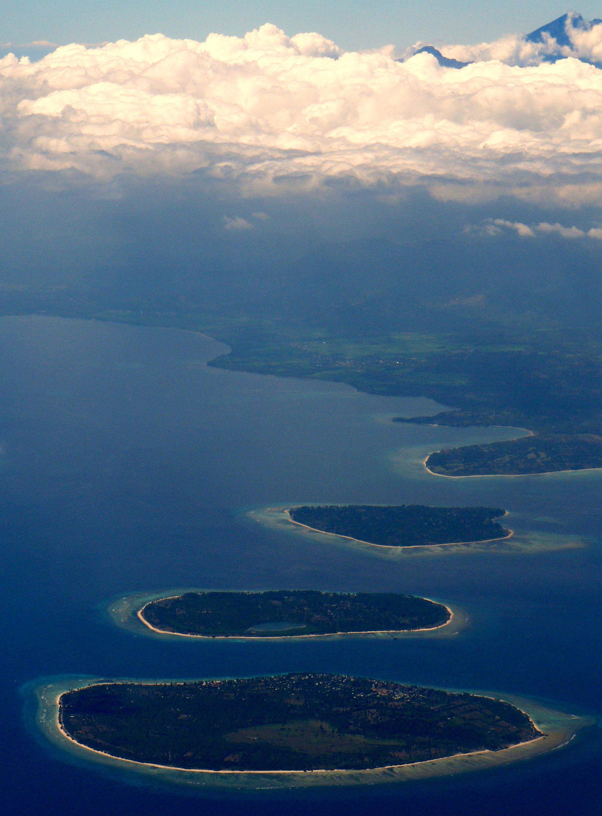 Gili Islands & Gunung Rinjiani, Lombok, Indonesia